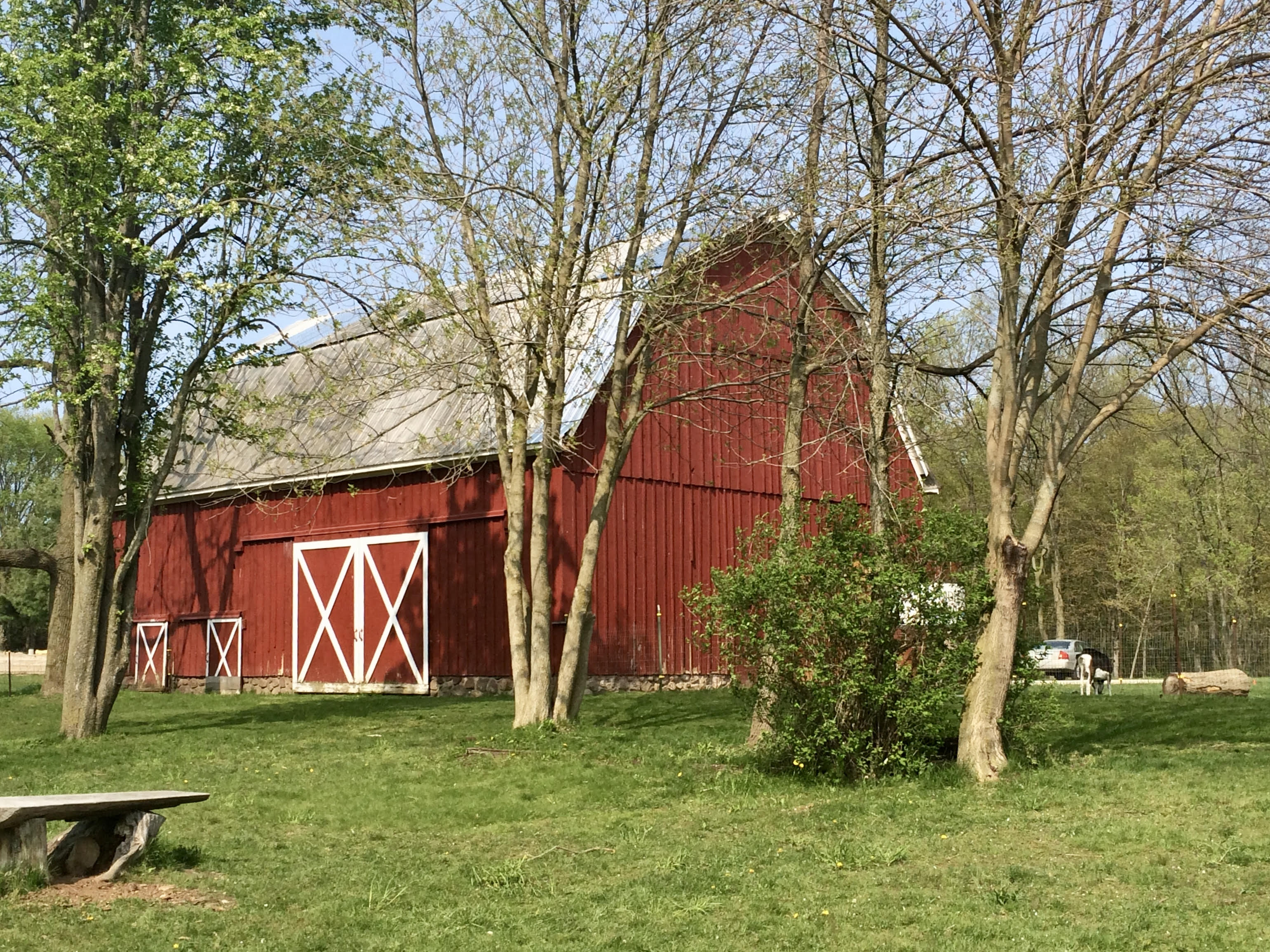 Barn belonging to the Blandford School at the Blandford Nature Center in Grand Rapids, Michigan, during the early springtime.